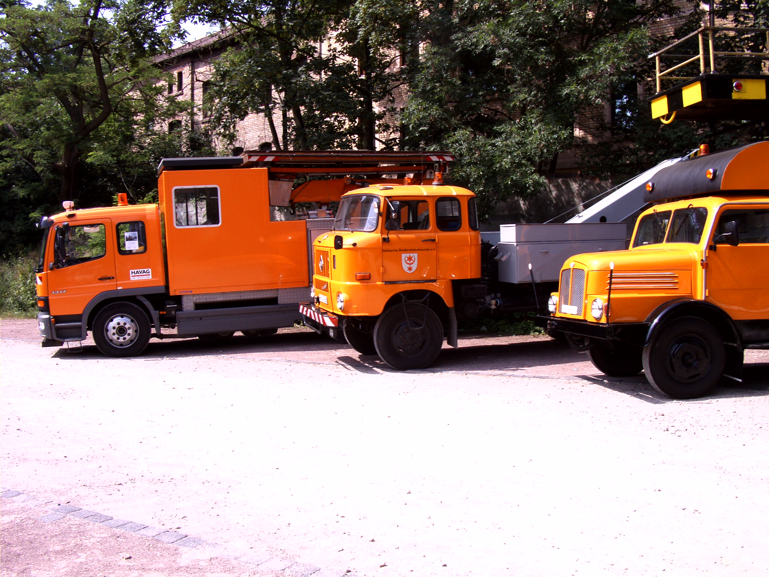 MB Atego, IFA W50, IFA S4000 from the city of Halle/Saale